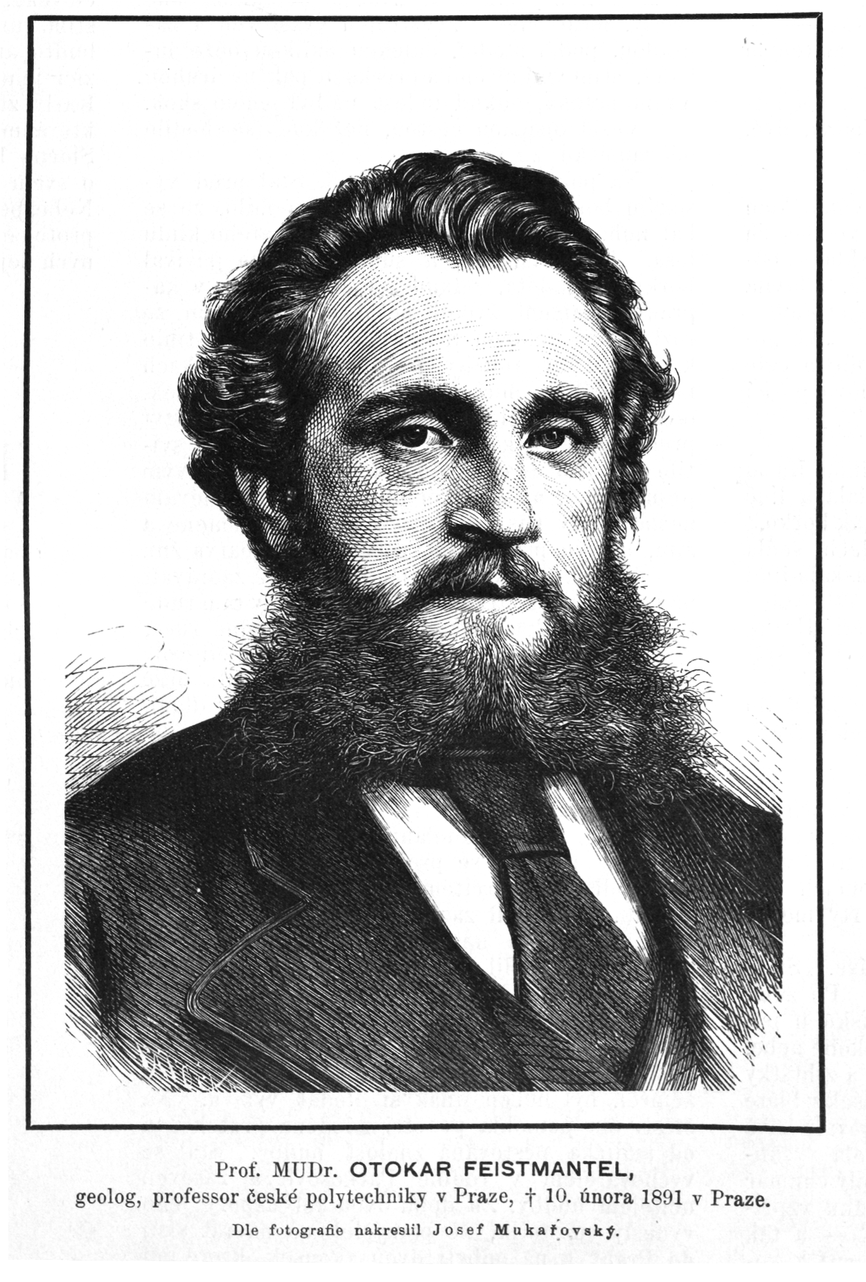 Portrait of Otakar Feistmantel (1848 - 1891), Czech geologist and paleontologist, author of travelogues from India.